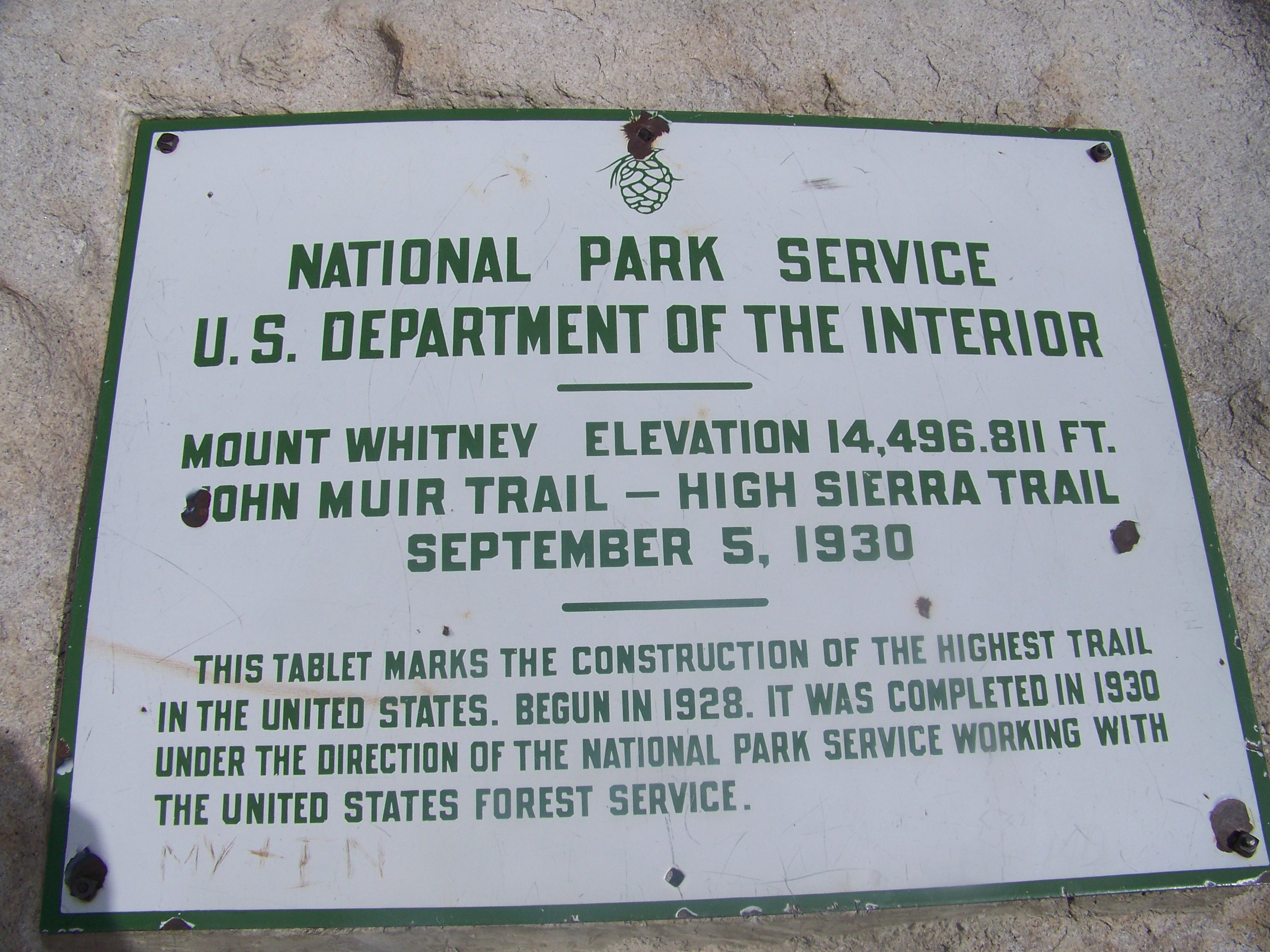 Photo of plaque on the summit of Mount Whitney.